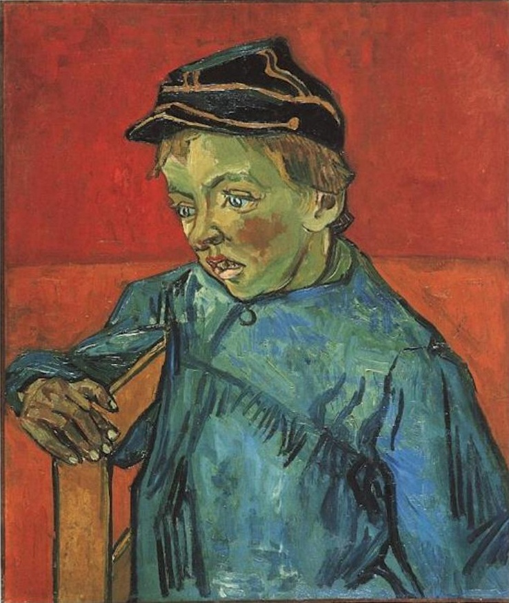 The Postman's son Camille Roulin